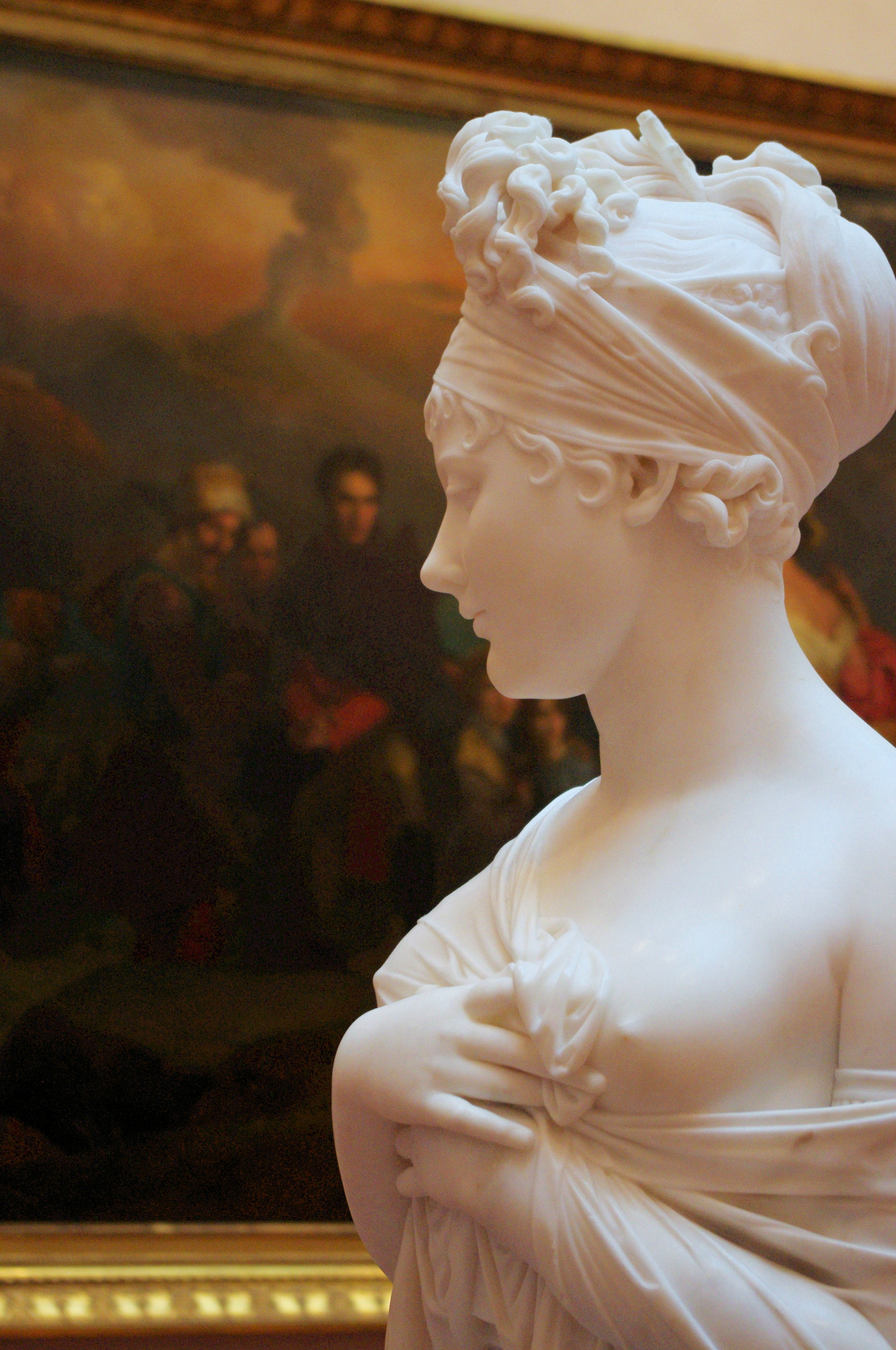 Married off to a wealthy banker when she was 15, Juliette Recamier was acclaimed as the ideal of female beauty -- an acclimation she cultivated actively. She was the most famous and popular hostess of her era. While many people tried to paint or carve her, this is the only image she liked.